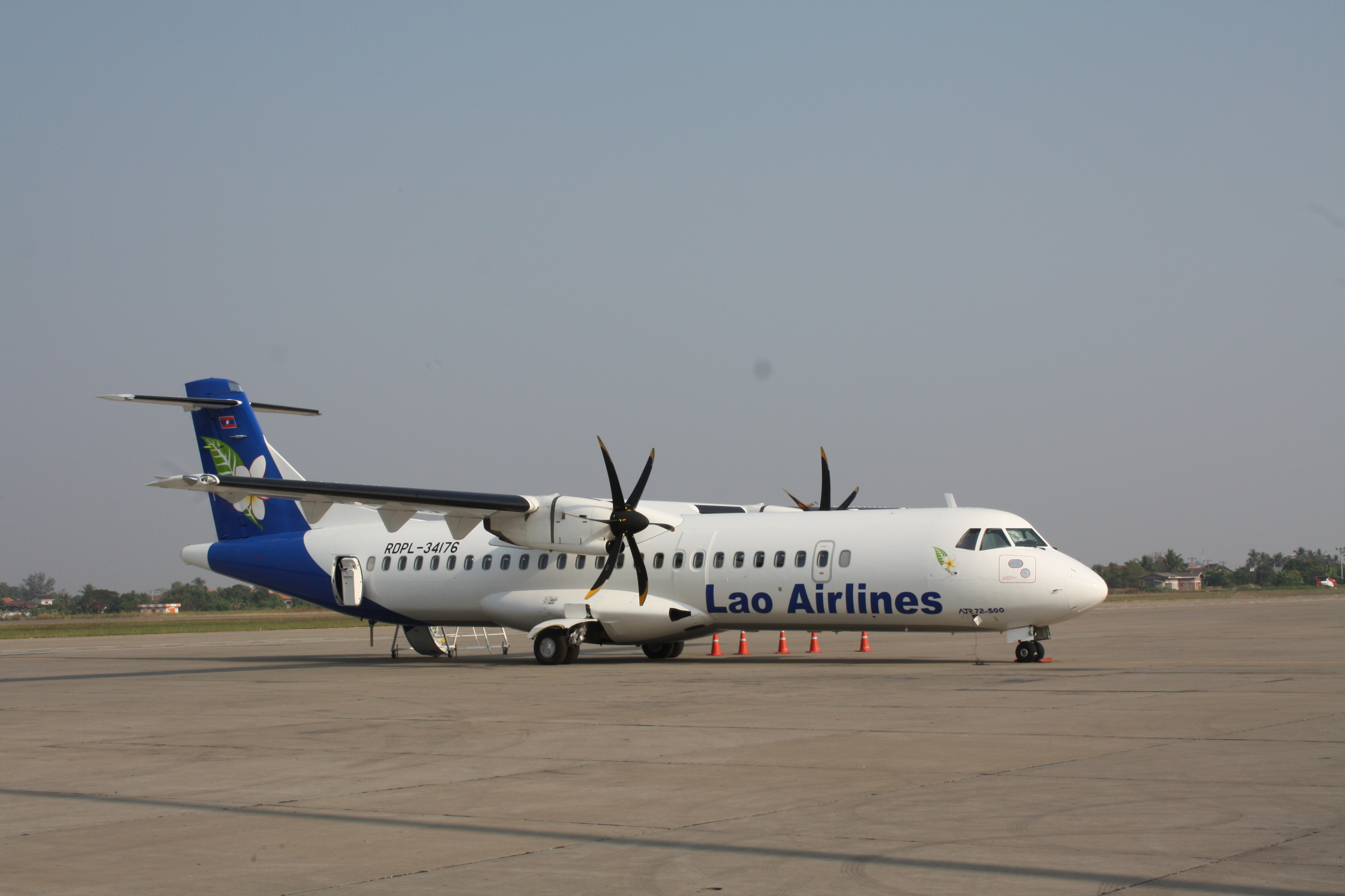 A Lao Airlines ATR72-500